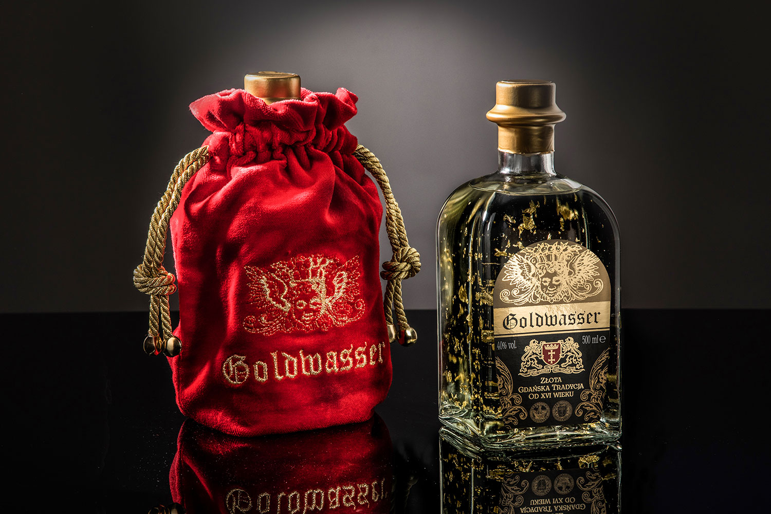 Traditional herbal liqueur from Gdańsk with petals of real 24-karat gold, produced according to the original, XVI century recipe.